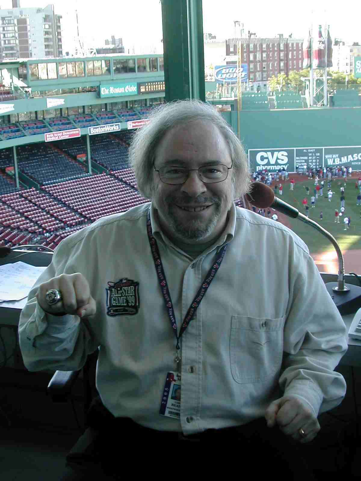 Carl Beane in Fenway Park Control Booth, Fenway Park, Boston, MA, USA